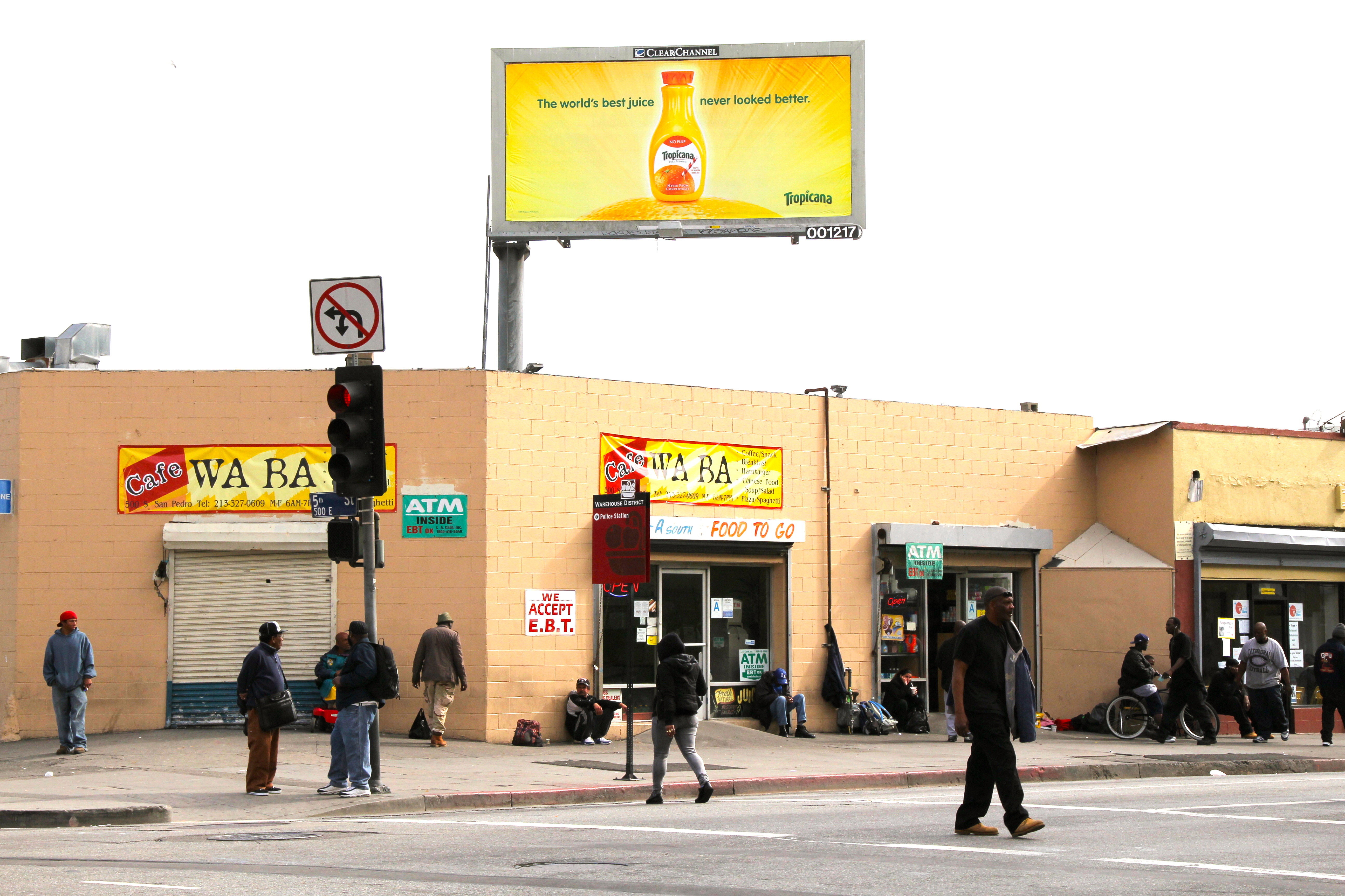 Cafe Waba, S San Pedro St. and E 6th St. downtown LA, USA